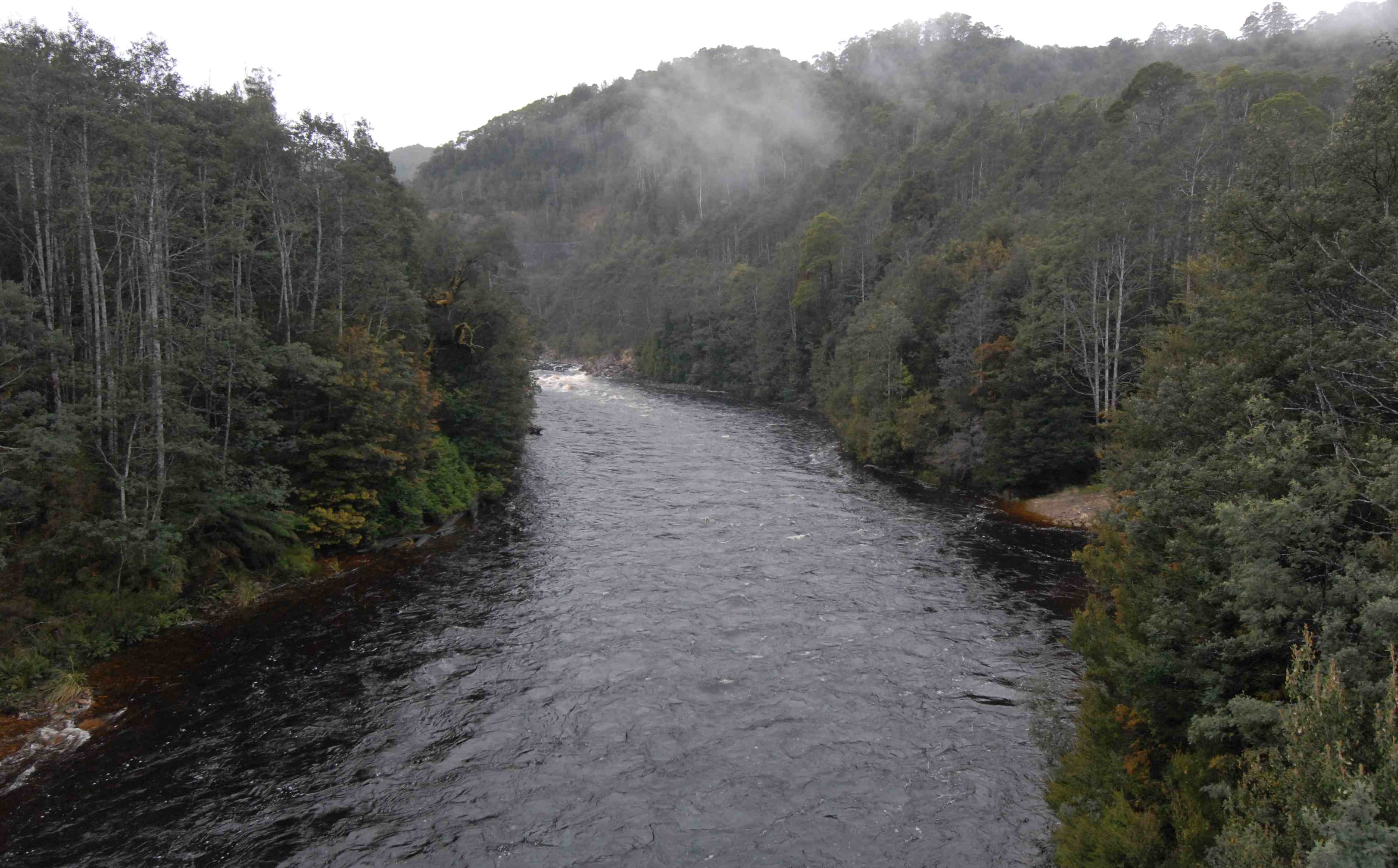 King River, Tasmania, looking East from the bridge at the junction with the Queen River.